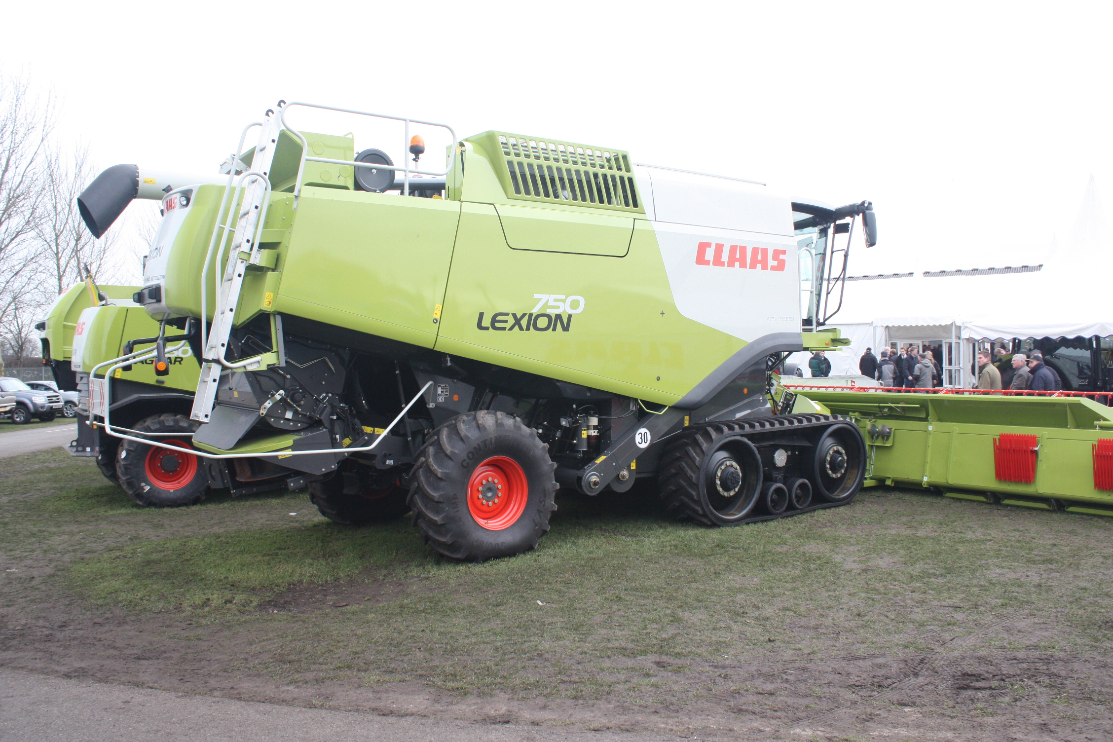 A Claas Lexion 750 combine harvester with a Claas V 900 header (9 m working width), taken from the side showing tracked front drive, at LAMMA 2011, Newark, Nottinghamshire, England